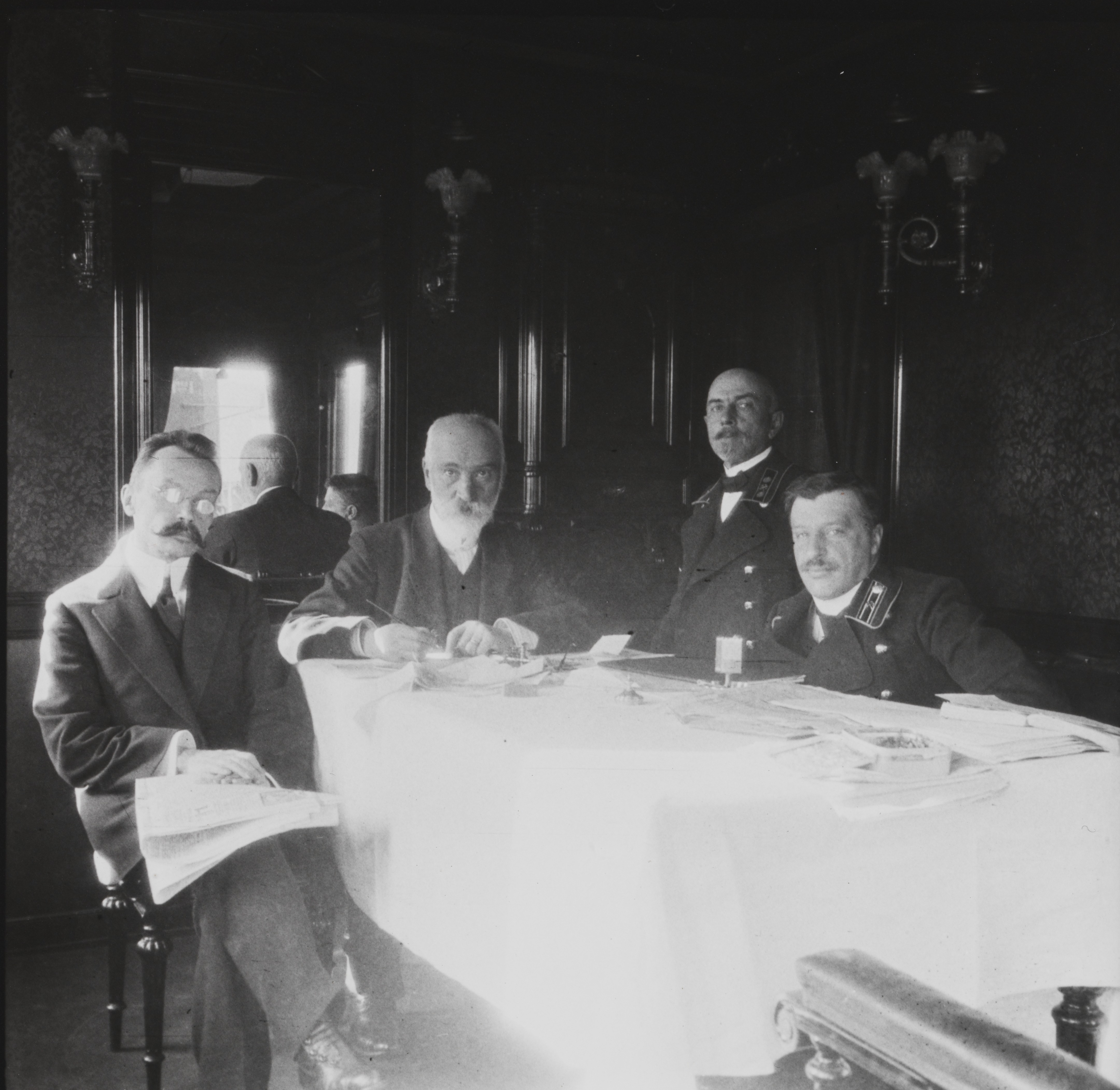 Engineer Wourtzel (with a white beard), top chief of the railroad construction in the entire Russian empire, sitting by the table together with his collaborators. To the right of him, engineer Eugen Podrutski and engineer Boris Seest (to the left possibly Serebolnikov ). They are probably in Wourtzel's own carriage attached to the train Petersburg-Vladivostok-Peking (the railroad station at Karimskaja). One of the pictures from the journey to Siberia between Aug. 2 and Oct. 26, 1913. Fridtjof Nansen continued his trans-Siberian journey by railroad, some of it recently finished, from Krasnoyarsk all the way to Vladivostok.